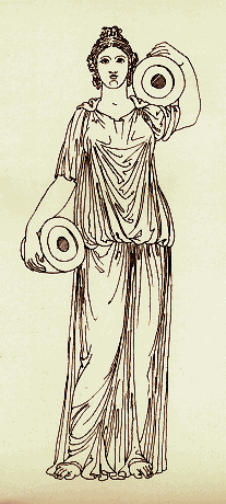 A Chiton (Hellenic piece of clothing). 19th century engraving.